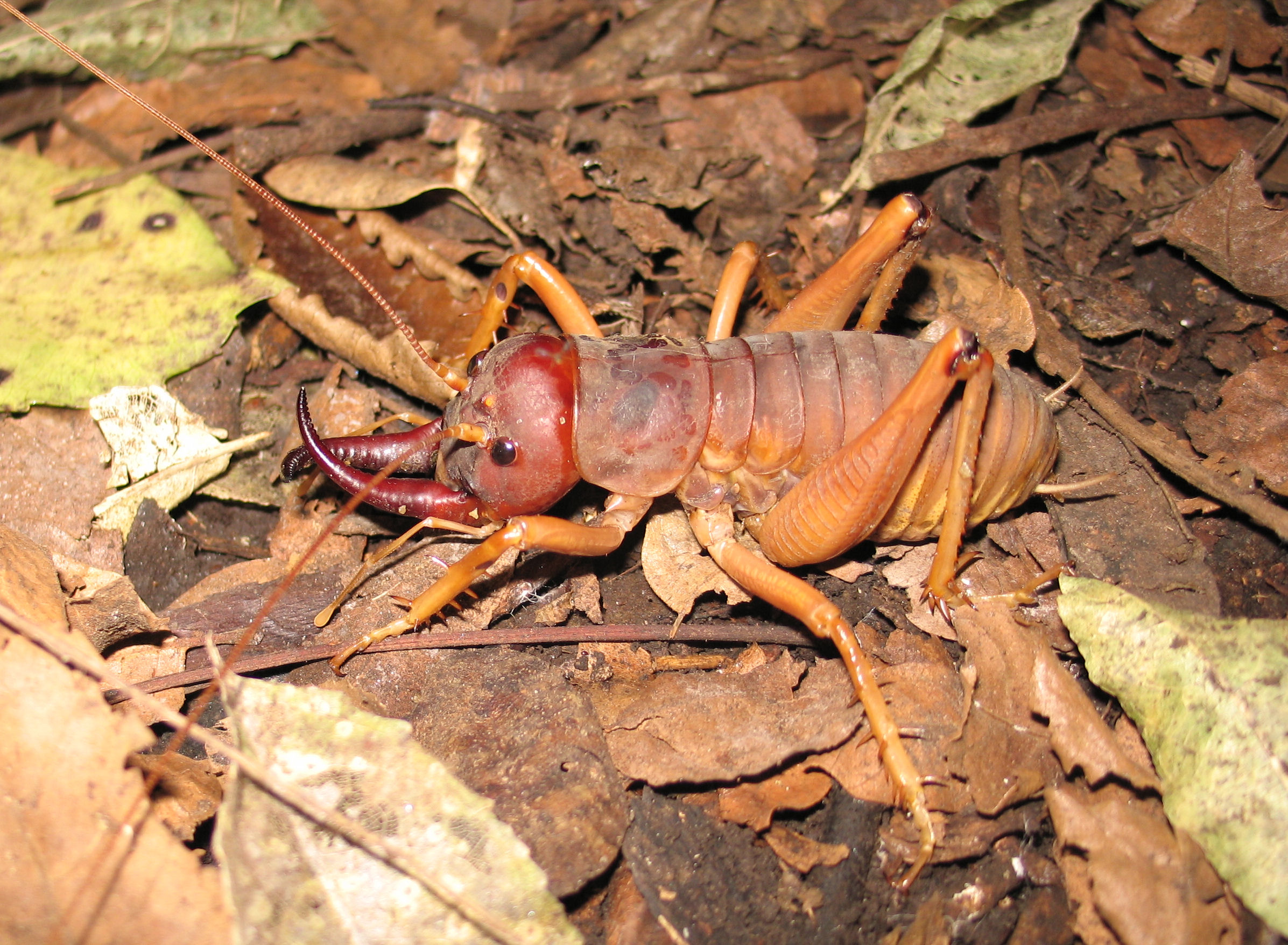 Mercury Island tusked weta, adult male Motuweta isolata